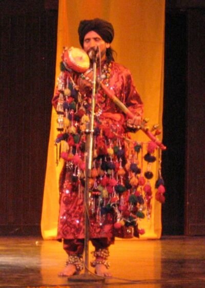 Pakistani Sufi singer Sain Zahoor in concert at India Habitat Centre, Delhi on May 6, 2007.